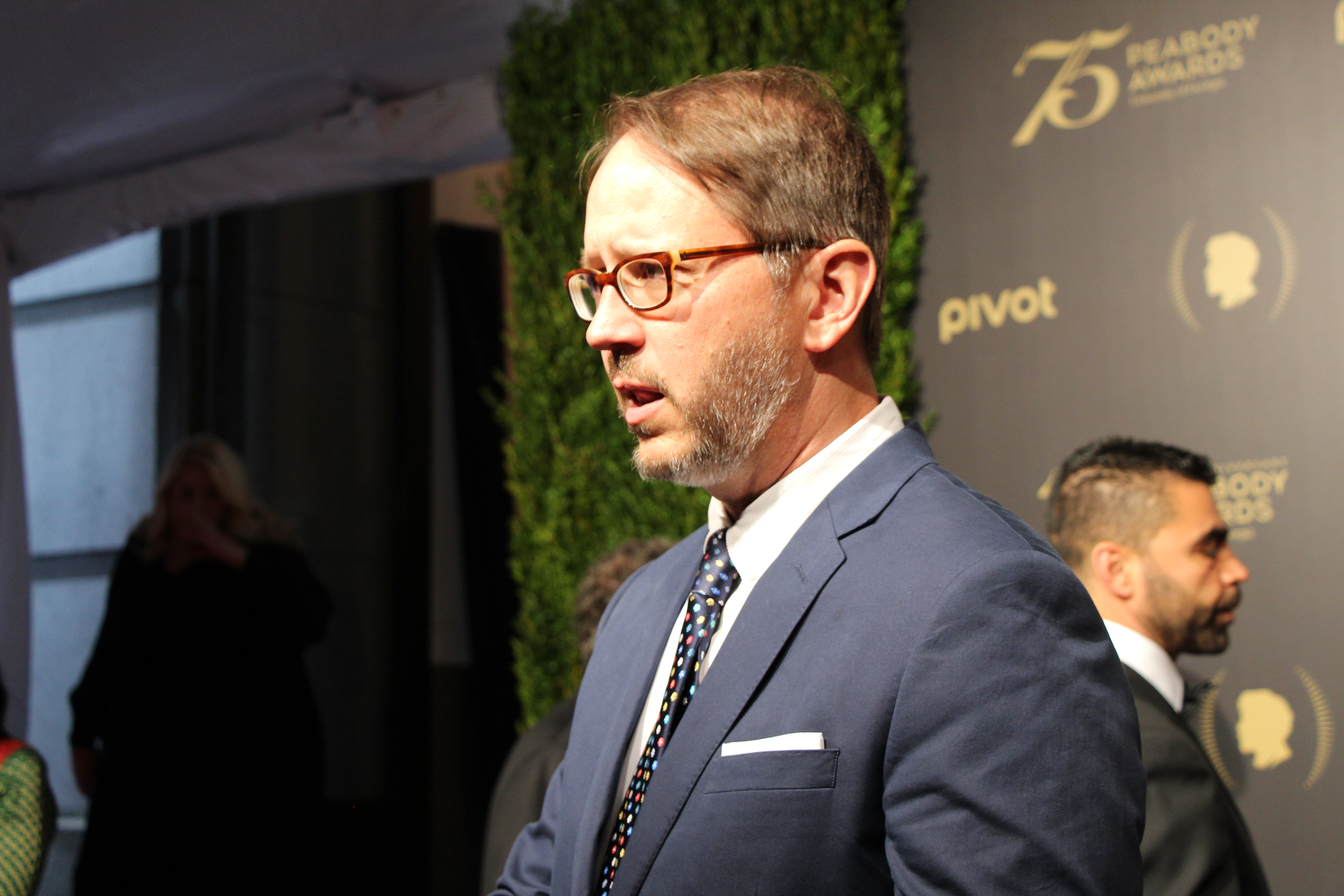 This photo includes Jonathan Groff, the Executive Producer and Showrunner of "Blackish." (Photo/Sarah E. Freeman/Grady College, in New York City, Georgia, on Saturday, May 21, 2016)